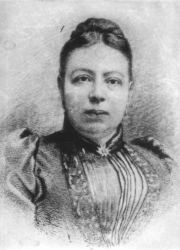 Nicolina Maria Sloot (pseudoniem van Melati van Java) (1853-1927)